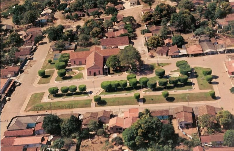 Vista aérea de Guarinos